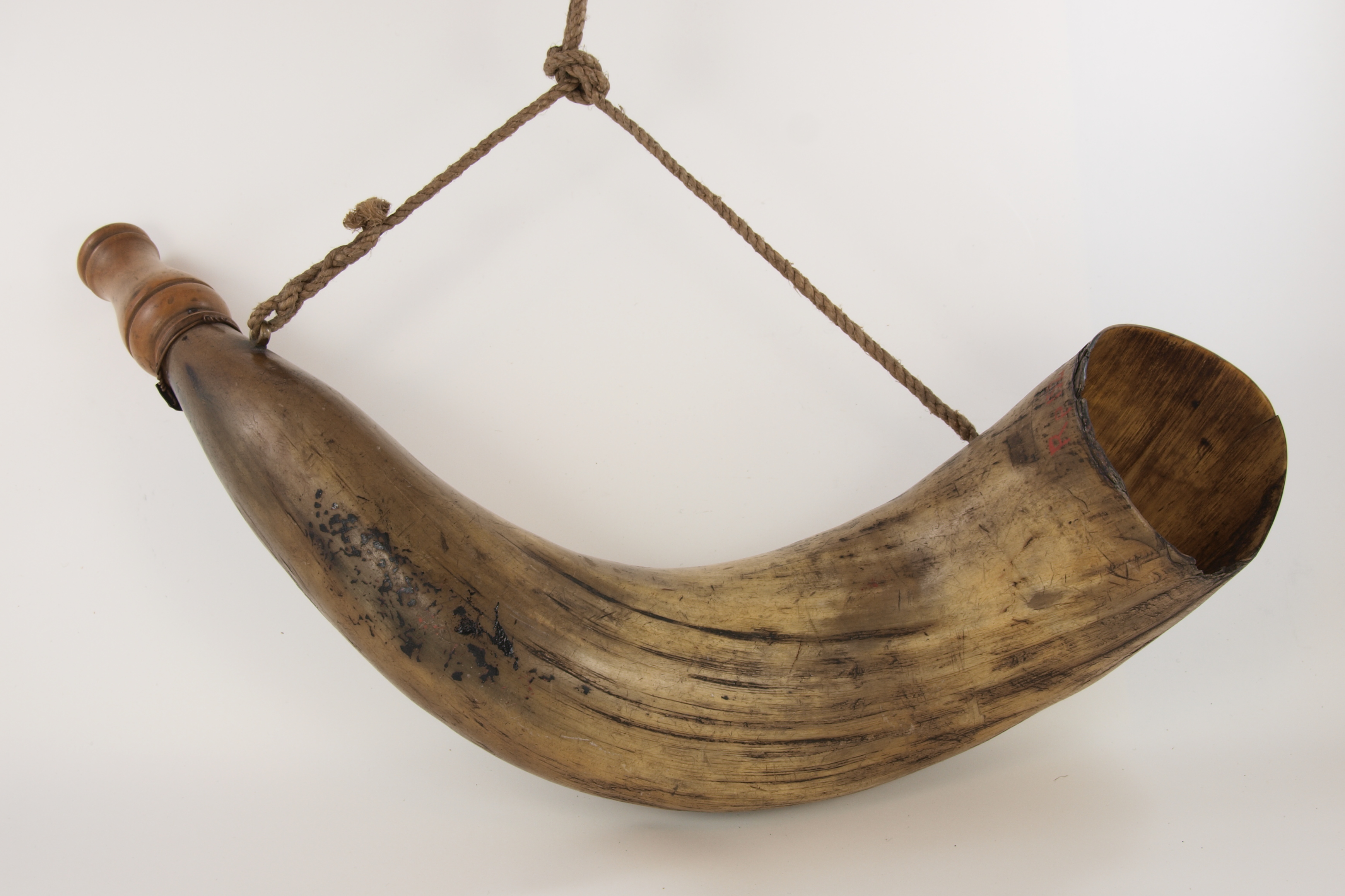 Signal horn with timber mouth piece, hanger and copper tag fixed with a copper thread. Inscription on the horn: N° 13. On the metallic plate: Rp. 152. Back side. Length: 470 mm (18.5 in). Height: 230 mm (9.1 in). Depth: 130 mm (5.1 in).